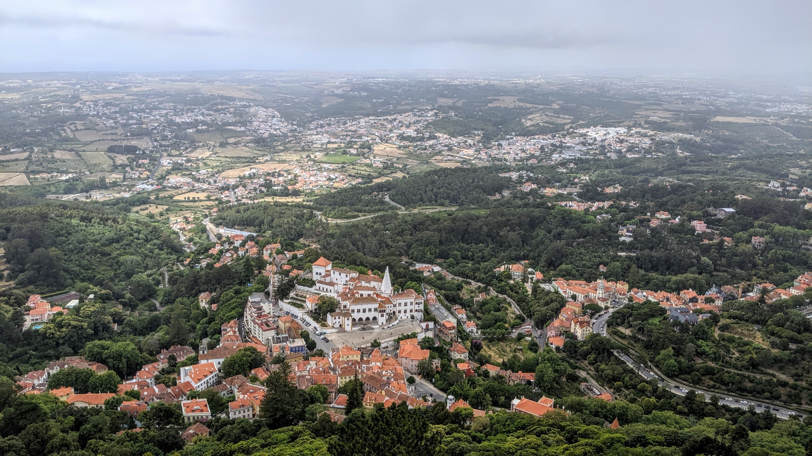 The Sintra National Palace dominates the view of Sintra from the Castle of the Moors.